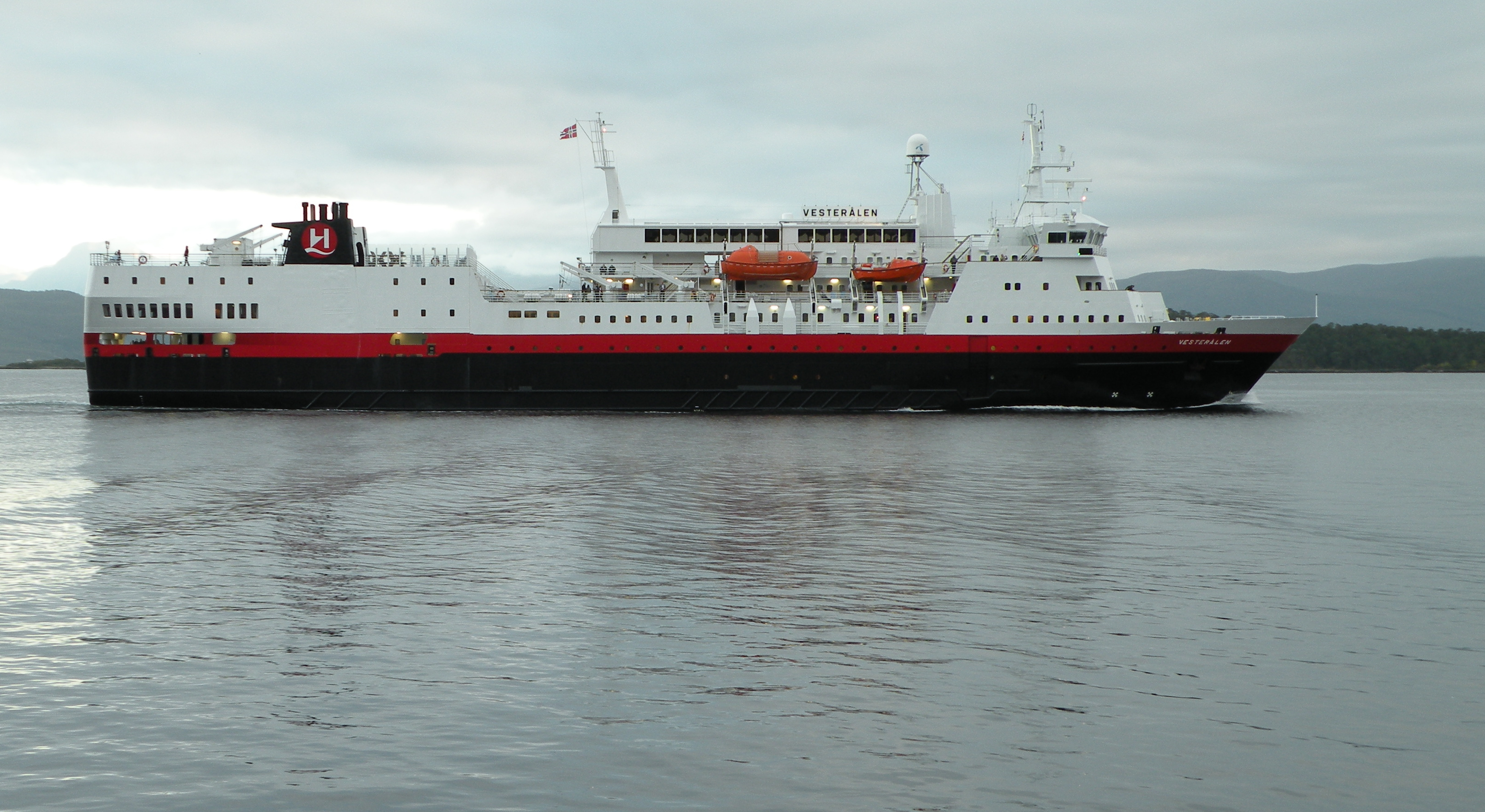 Norwegian coastal express ship (Hurtigruten) MS Vesterålen leaves Molde